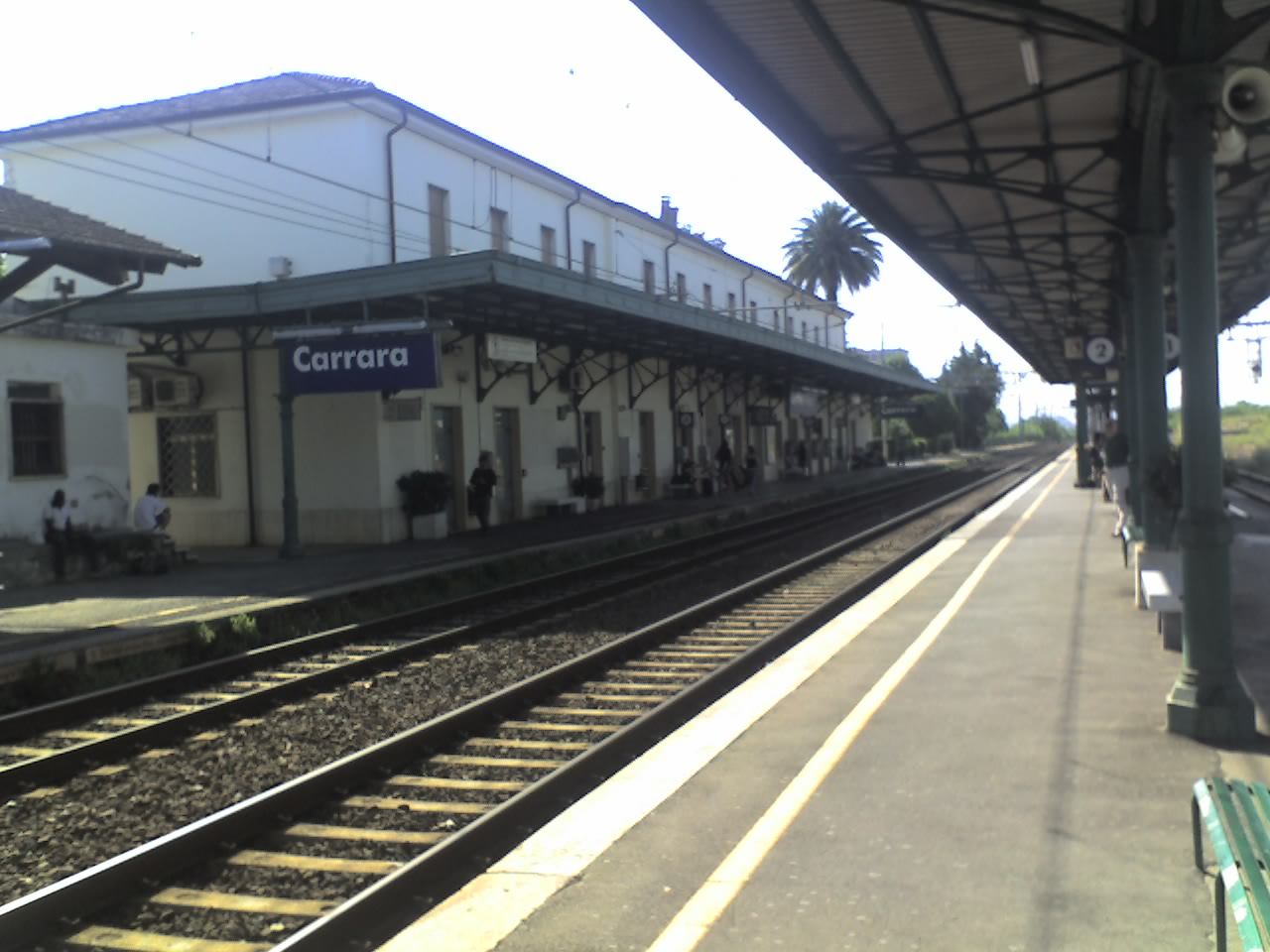 Railway station of Avenza, near Carrara